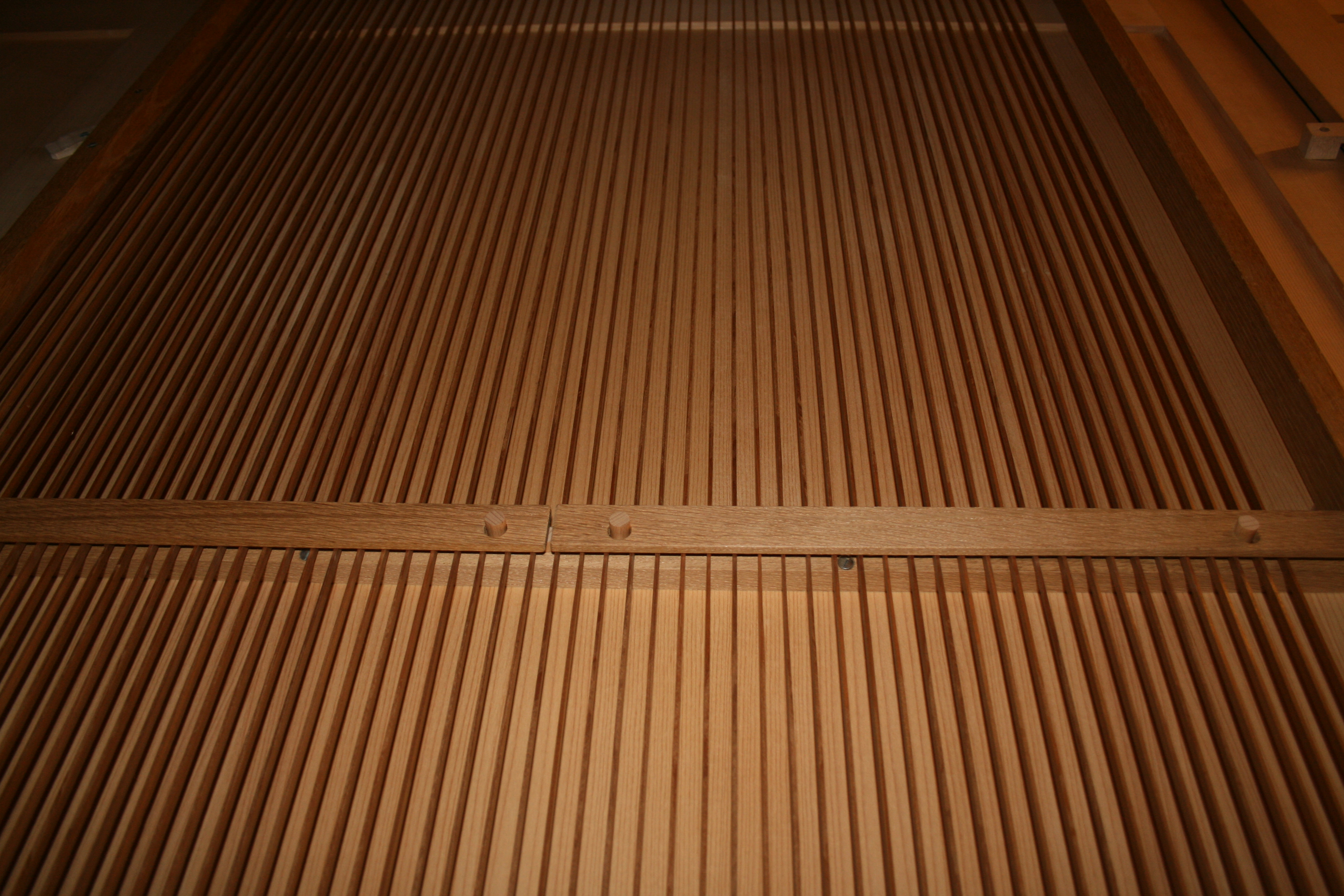 Tracker action (organ of St. Martin, Memmingen).